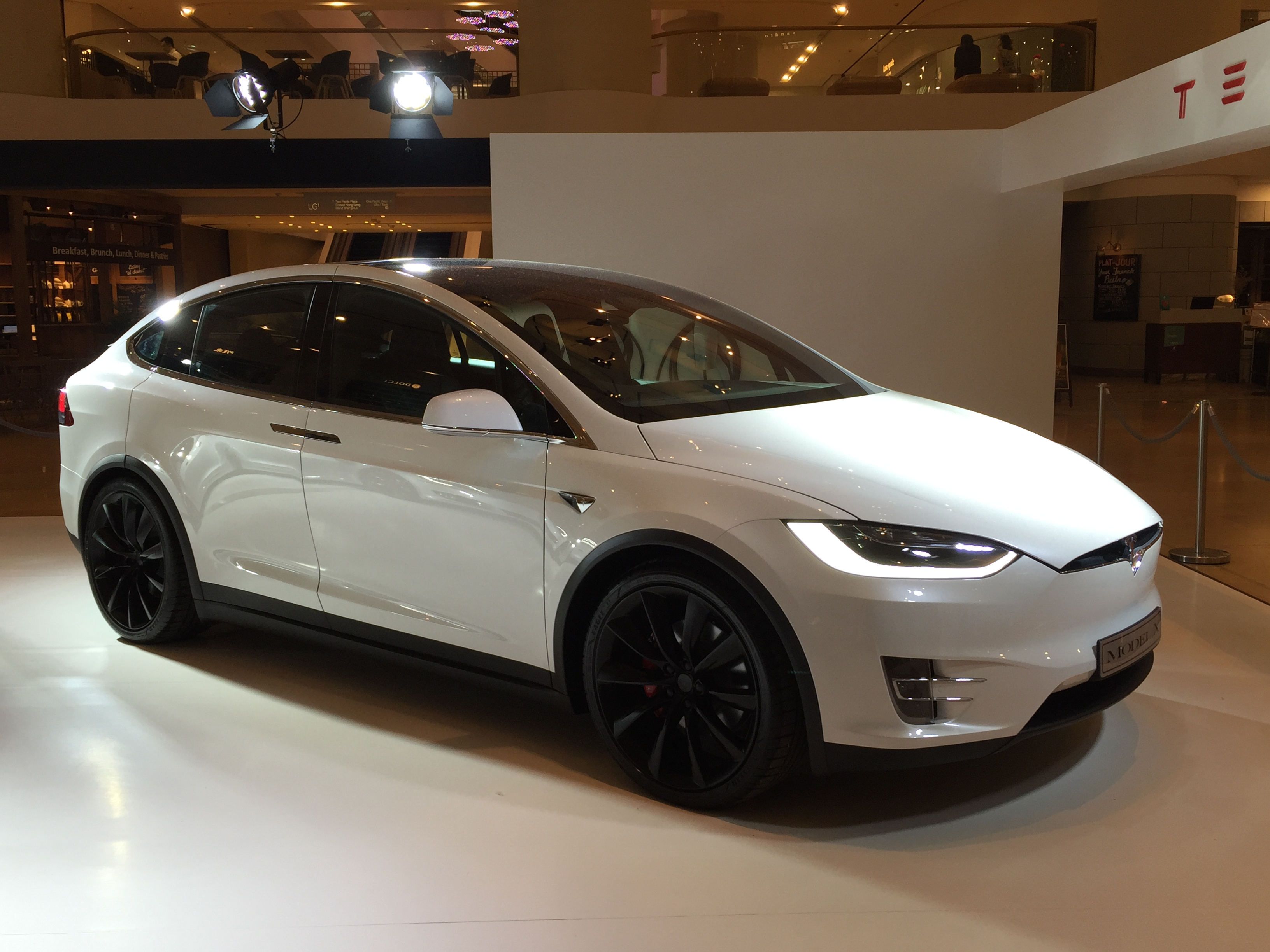 A production model Tesla Model X on display inside Pacific Place.